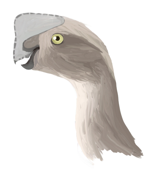 Illustration of the Mongolian maniraptoran Oviraptor philoceratops. Note that the crest is incompletely known. Attribution required, see Creative Commons license below.